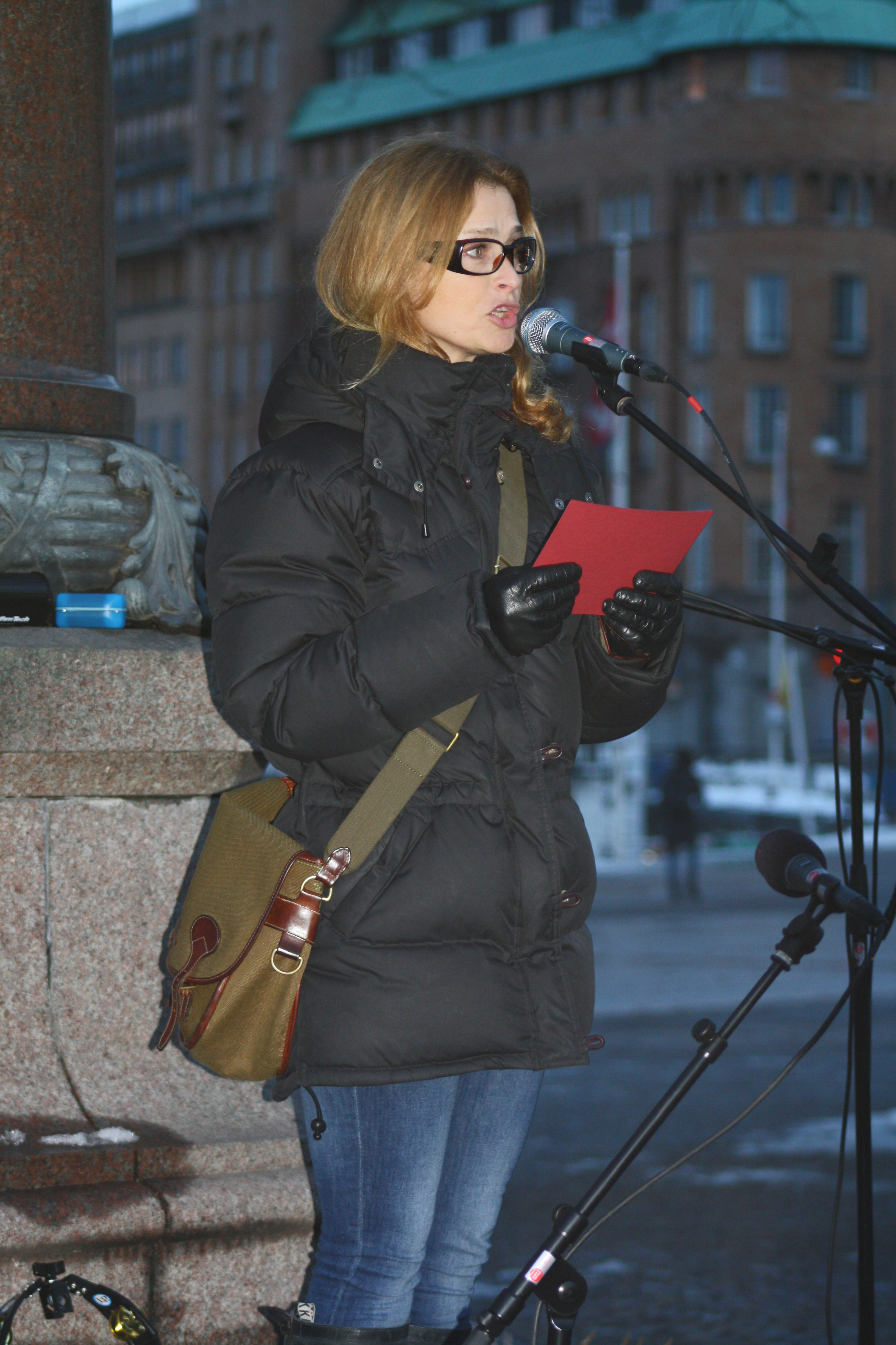 Lena Endre at 'Fredag för frihet' in Stockholm 04/03/2011.